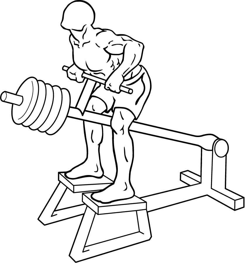 an exercise of upper back